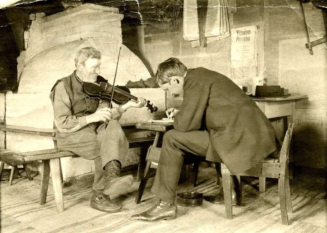 Otto Andersson writing down folk music tunes played by Erik Lönnberg (born 1829), in 1909. Lönnberg lived in Vittisbofjärd/ Ahlainen, Finland. Sm id_nr: 5933. Photo: Gösta Widbom. Date: 1909. Archive of the Sibelius Museum - Sibeliusmuseums arkiv - Sibelius-museon arkisto.